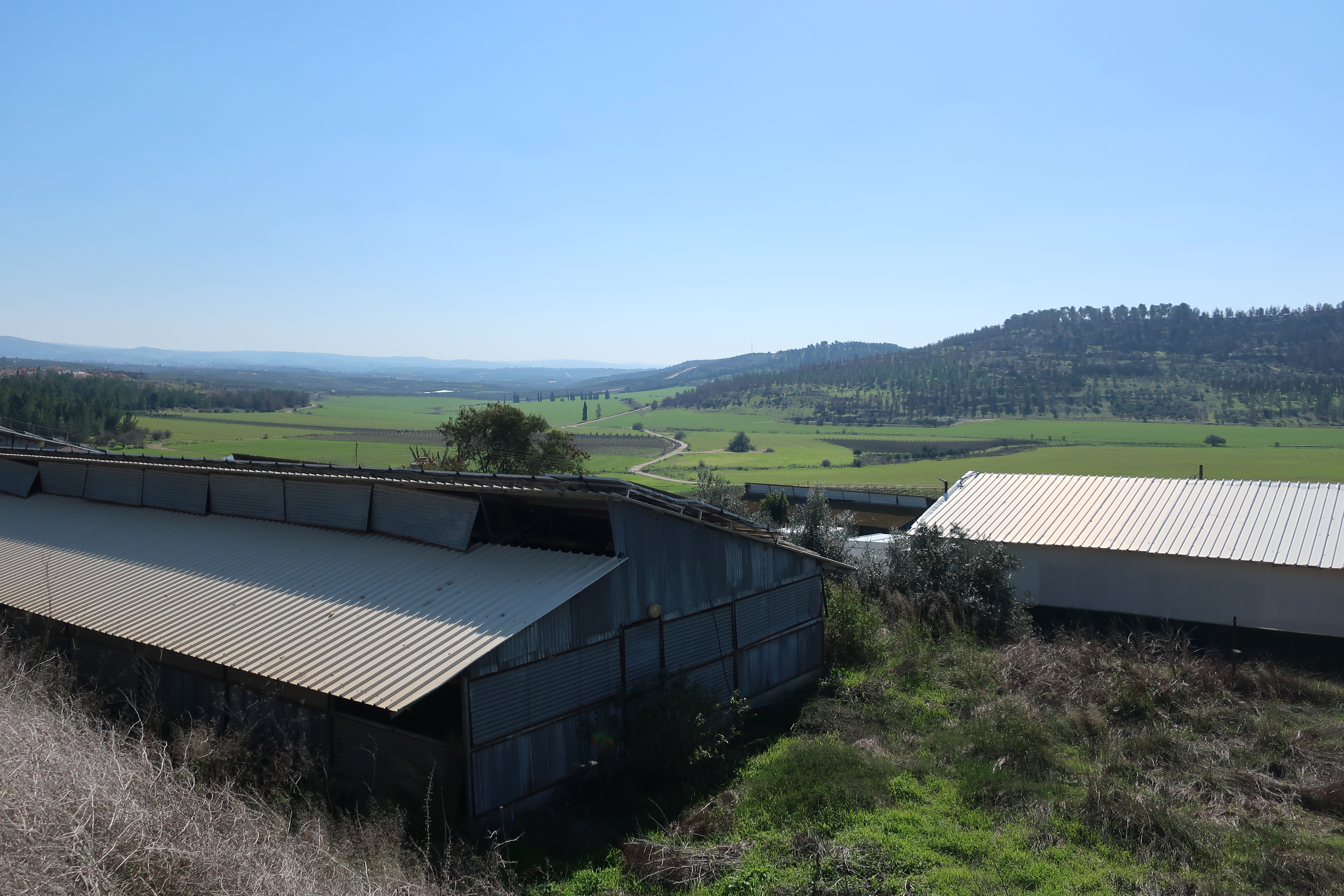 Extension of Elah valley, known as "Wadi Sur," taken from Neve Michael in Israel